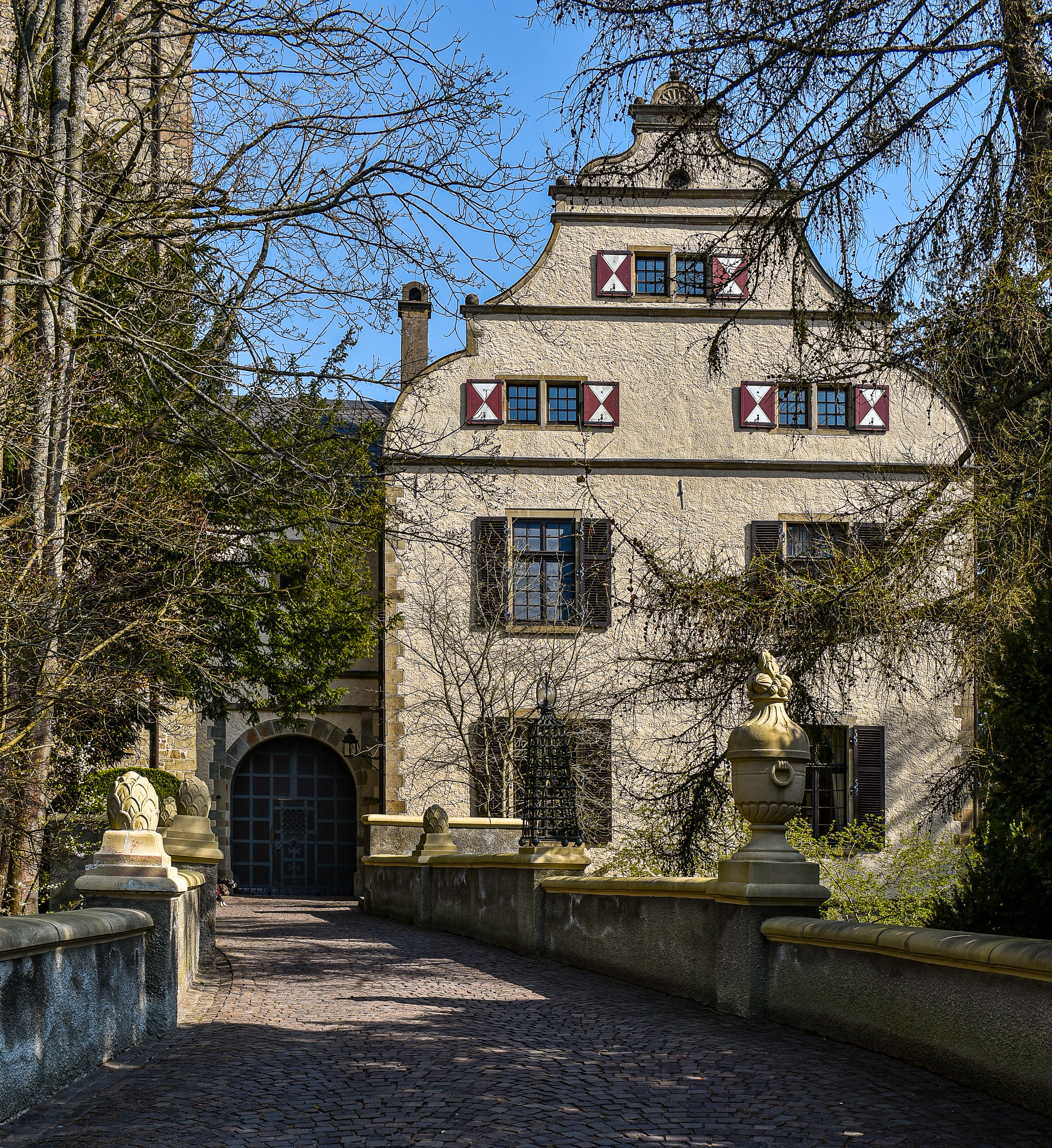 Castle of Landsberg in Ratingen